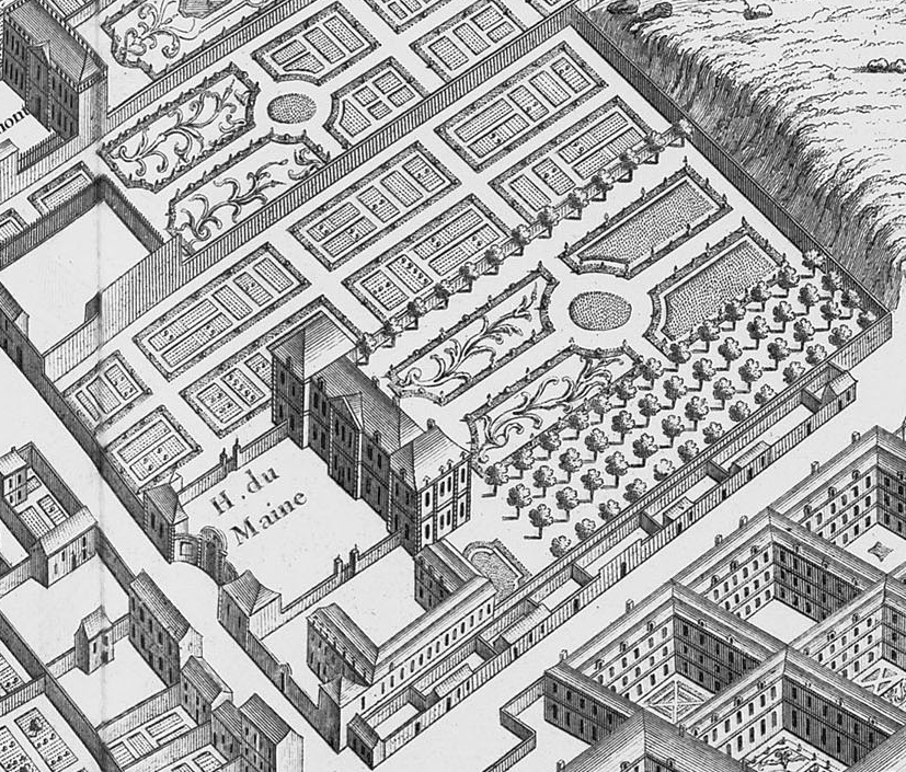 The grounds of the Hôtel du Maine, now known as the Hôtel Biron, from the Turgot map of Paris circa 1737